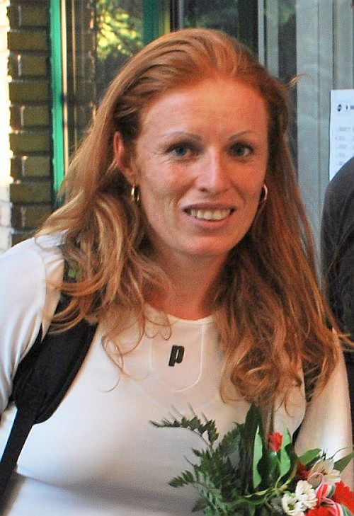 Vladimira Uhlirova after losing double final in Budapest (2011)